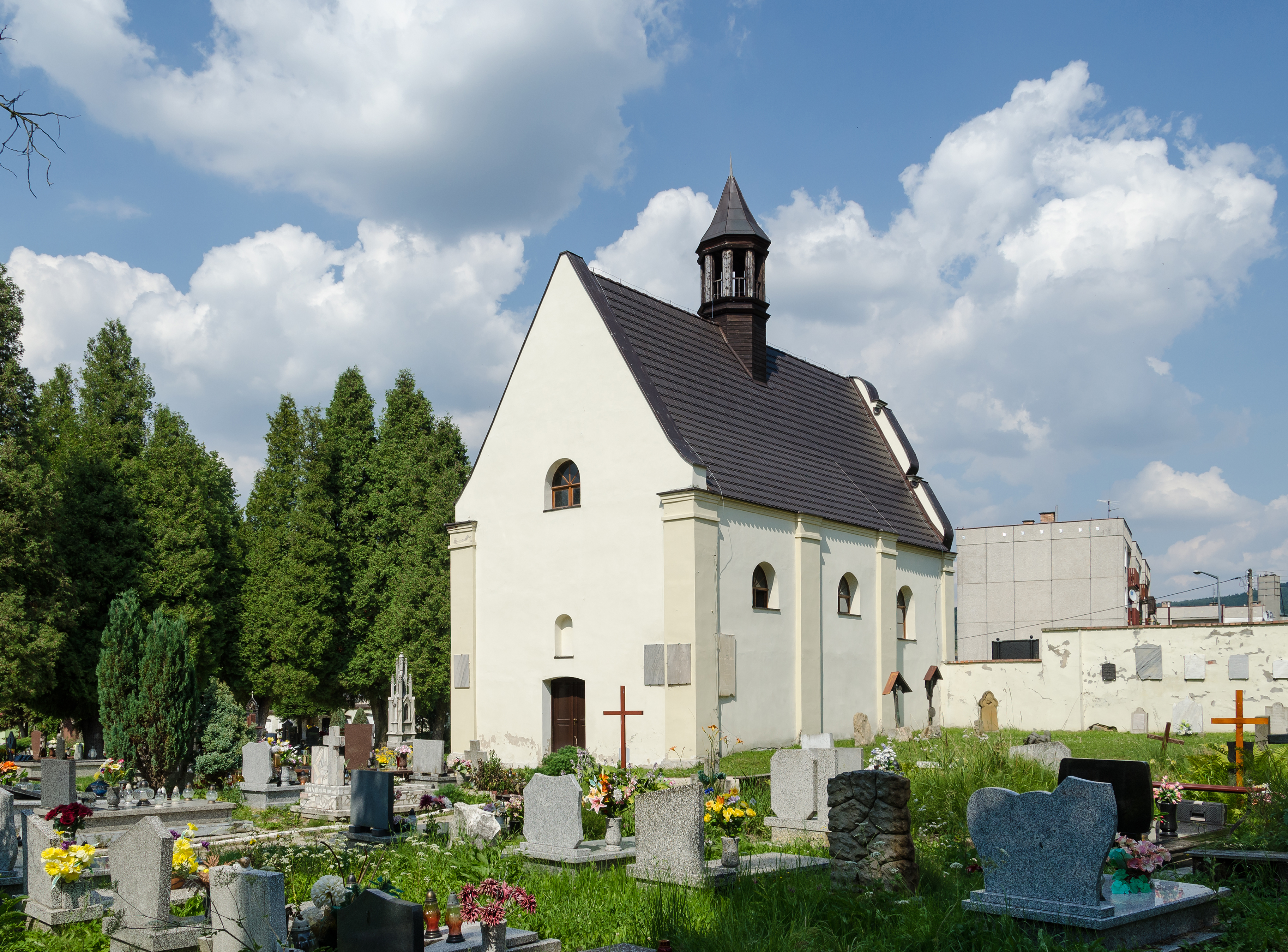 Saint Roch church in Lądek-Zdrój